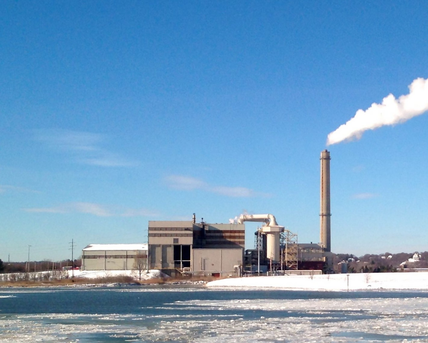 Wheelabrator Technologies' Waste-to-Energy plant in Saugus, Massachusetts. In service since 1975.